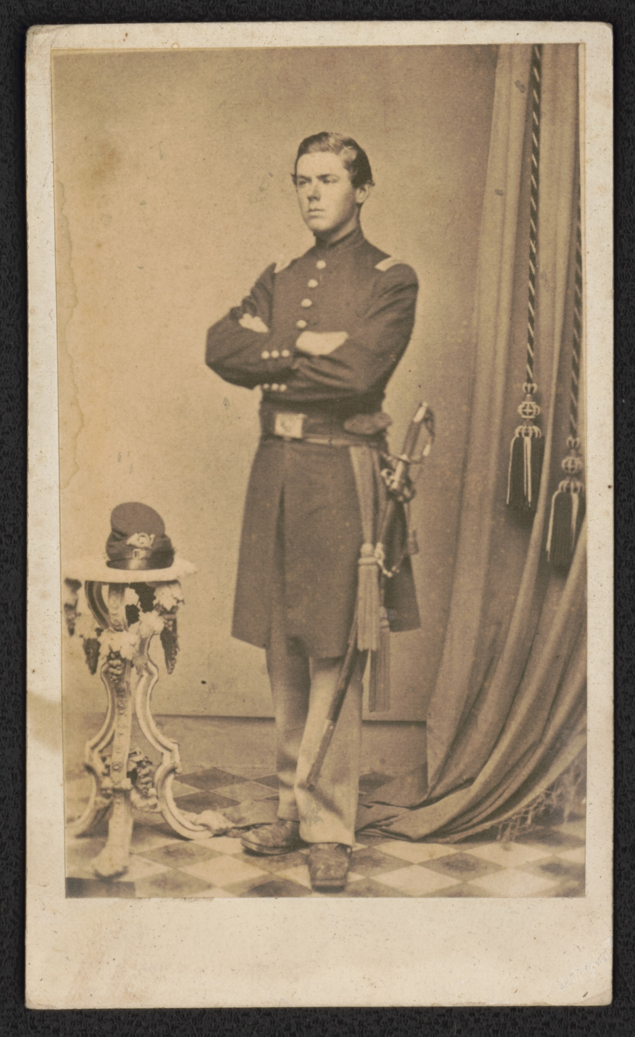 Title: Captain William H. Jewell of Co. A, 1st Massachusetts Infantry Regiment and Co. A, 38th Massachusetts Infantry Regiment in uniform with sword Abstract/medium: 1 photograph : albumen print on card mount ; mount 11 x 6 cm (carte de visite format)